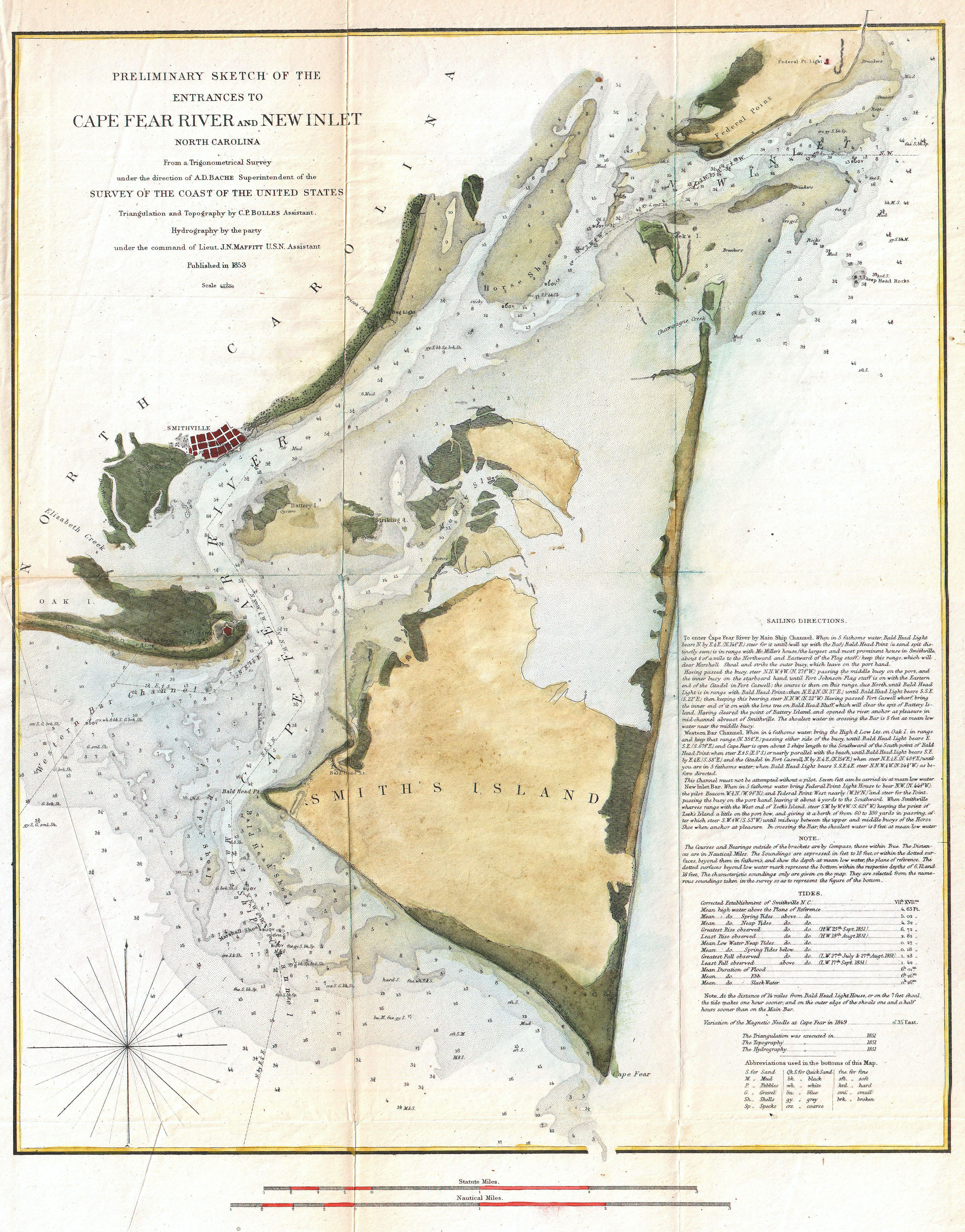 One of the more striking examples of the U.S. Coast Survey Map of North Carolina’s Cape Fear and Cape Fear River. Extends from Federal Point south to the top of Cape Fear and then west past Smithville and Fort Caswell to Oak Island (roughly 78.04 Longitude). Offers superb coastal detail of the North Carolina mainland as well as Smith’s Island and Federal Point. From a nautical perspective the map offers a wealth of depths soundings and sailing instructions, as well as information on shoals, light houses, and tides. The triangulation for this chart was calculated by C. P. Bolles. The Hydrography was accomplished J. N. Maffitt. Prepared under the supervision of A. D. Bache for the 1853 Report of the Superintendant of the U.S. Coast Survey .